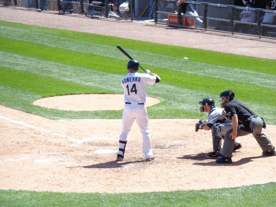 Picture of Paul Konerko hitting against the Detroit Tigers on May 15, 2012.